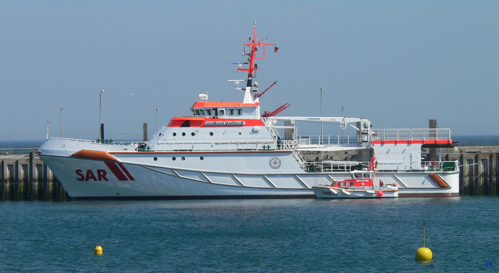 SAR Hermann Marwede Helgoland